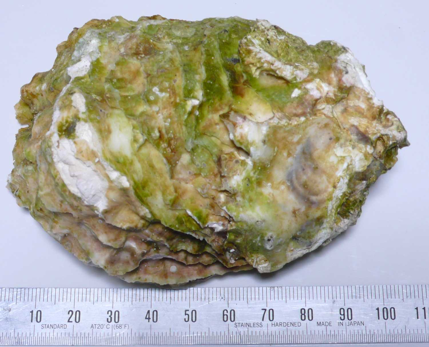 A shell of Crassostrea nippona which was landed at Toba city in Japan.